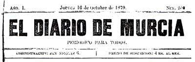 Publication headline.